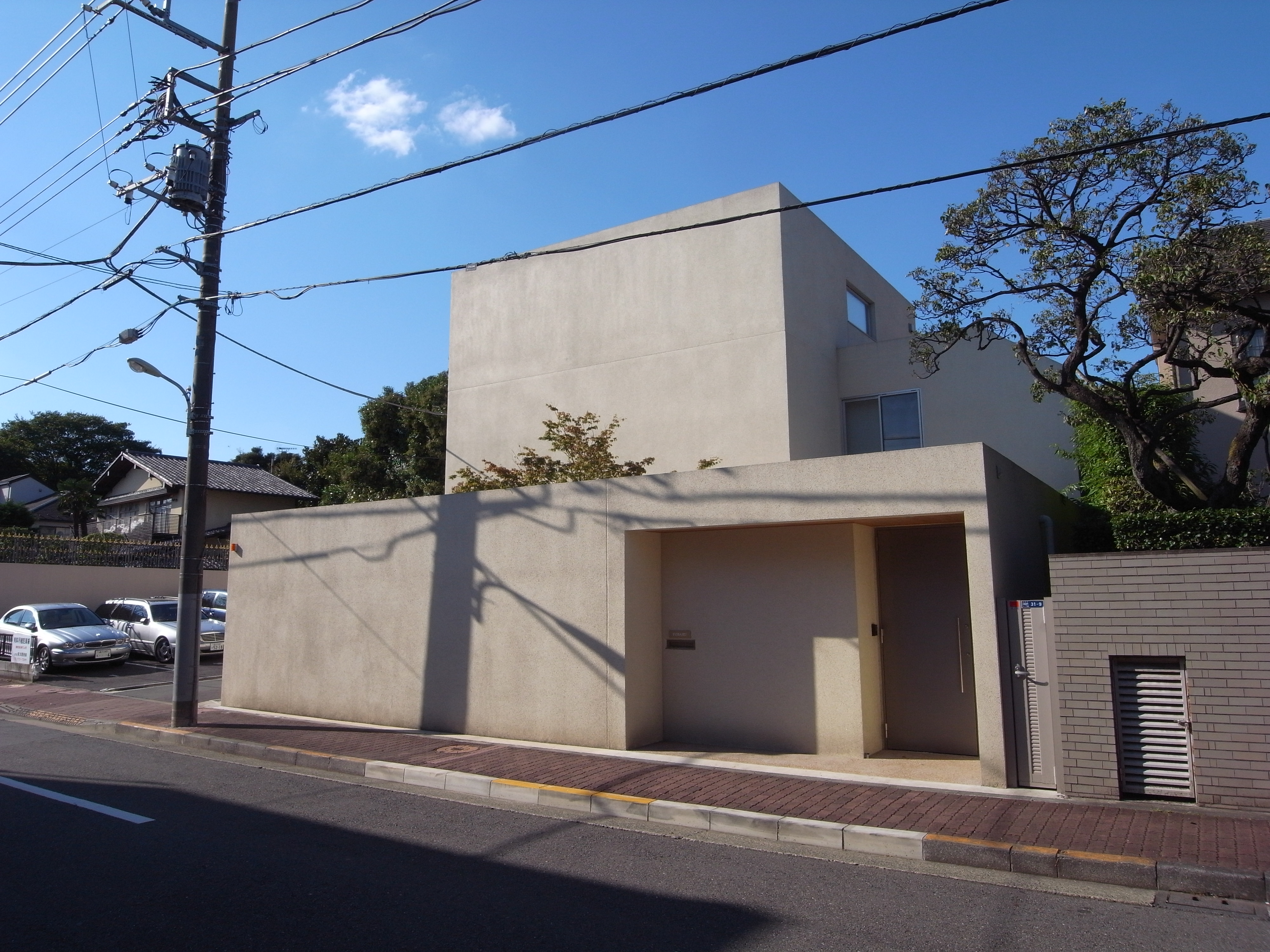 A house in Den'enchōfu